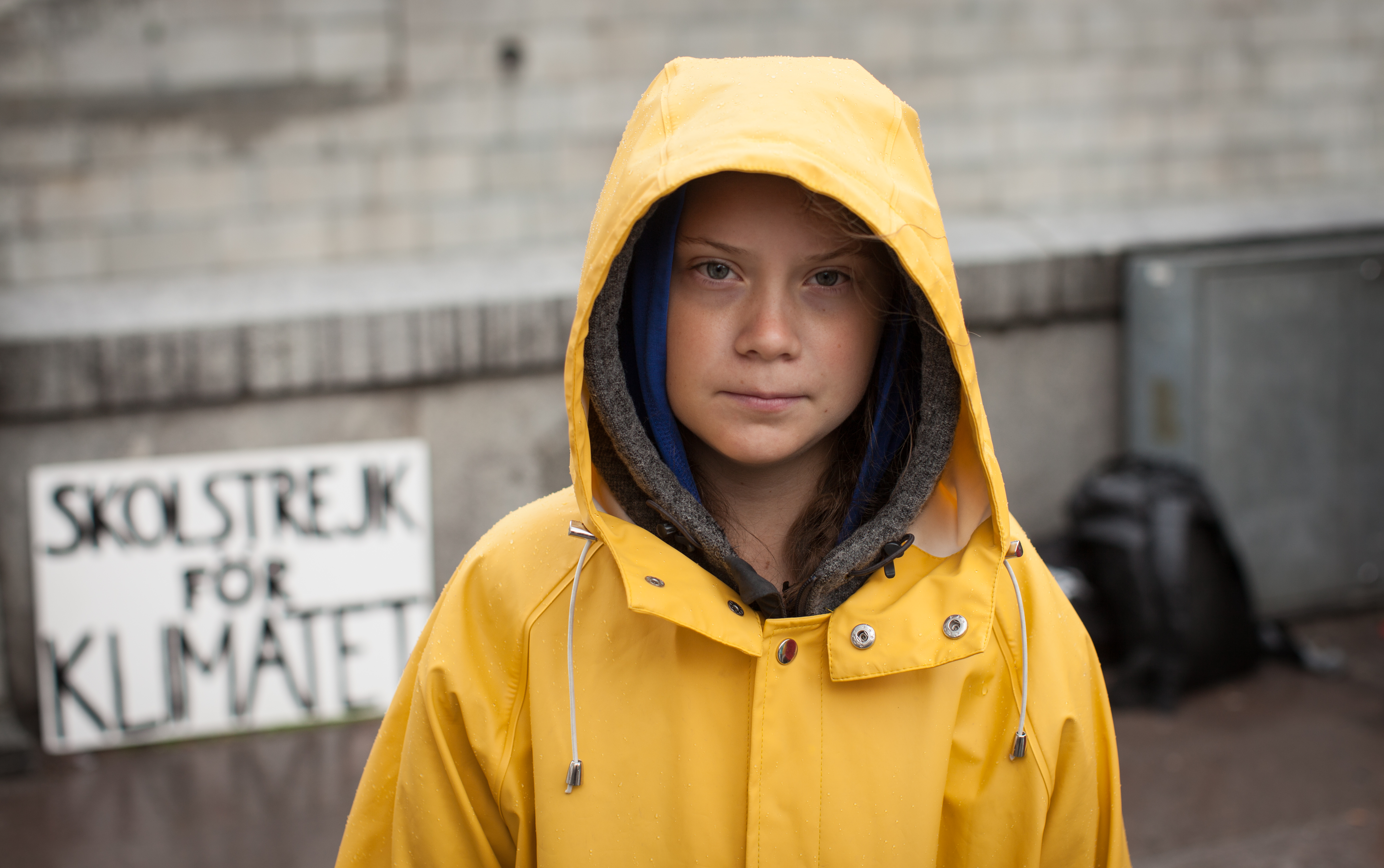 In August 2018, outside the Swedish parliament building, Greta Thunberg started a school strike for the climate.